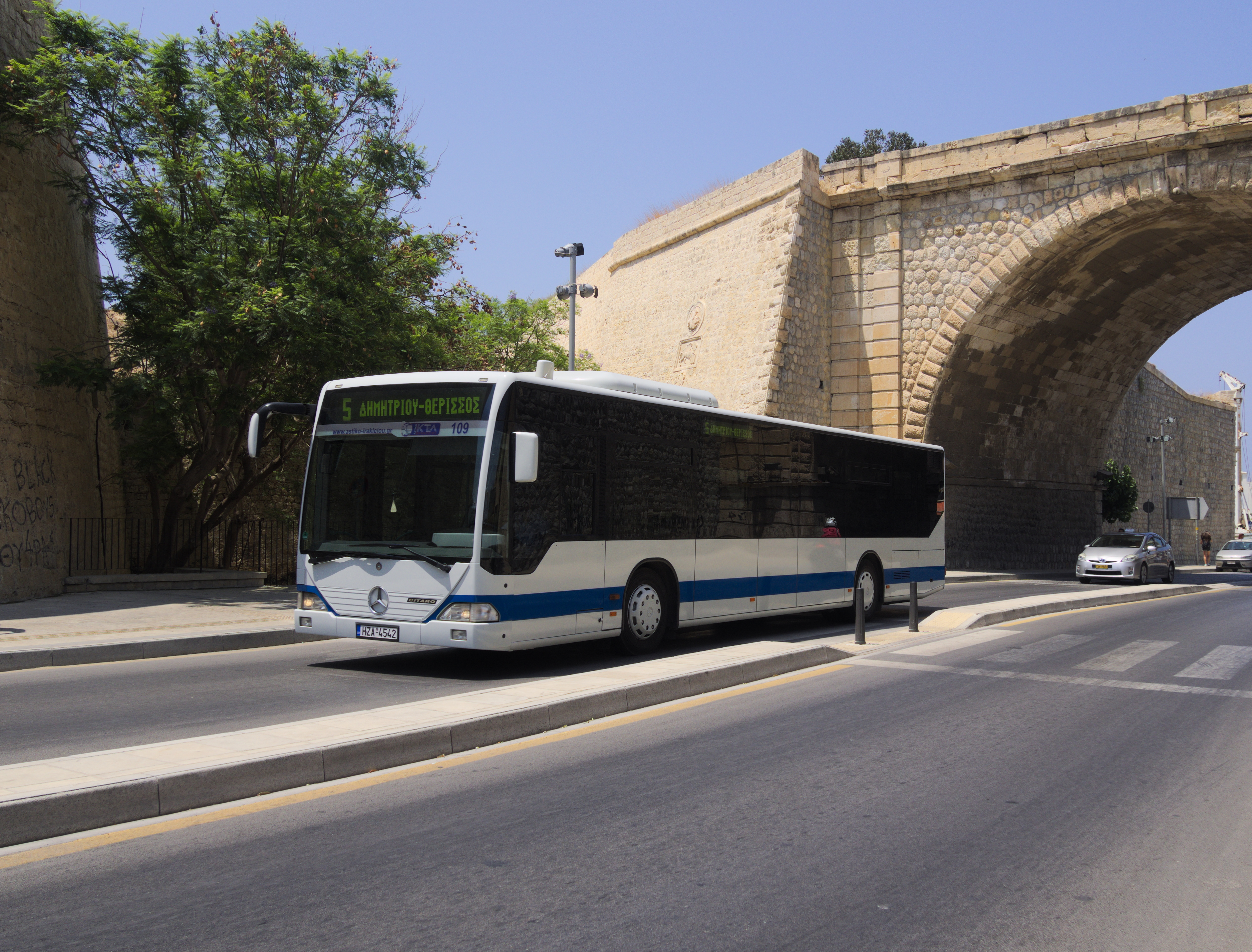 A Mercedes Citaro bus of the Heraklion city bus service, at Chanioporta.